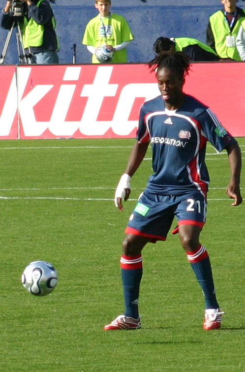 Shalrie Joseph at the 2006 MLS Cup.